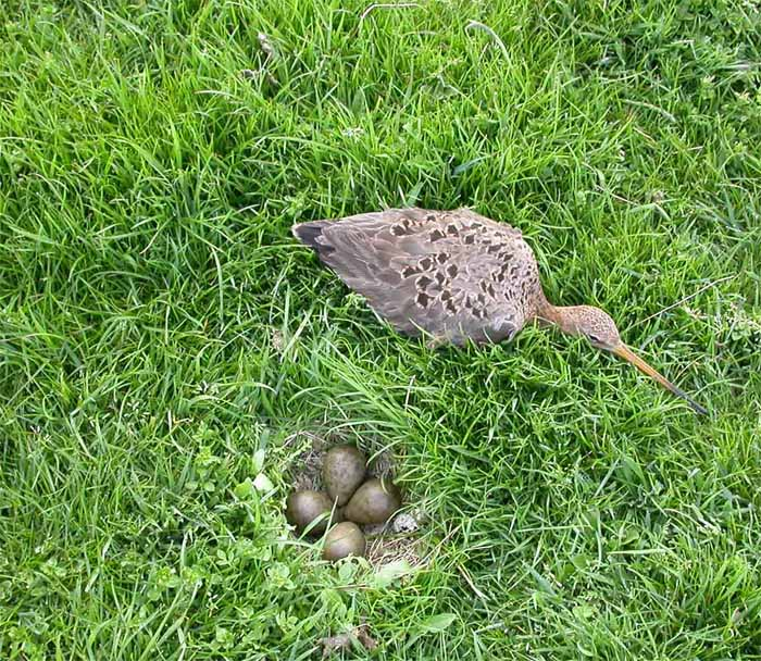 Black-tailed Godwit - notice:This piture was made in the framework of a research project. A permit to visit nests, touch and measure eggs and catch and band birds was given. Neither bird nor nest was harmed and the bird was set free again.